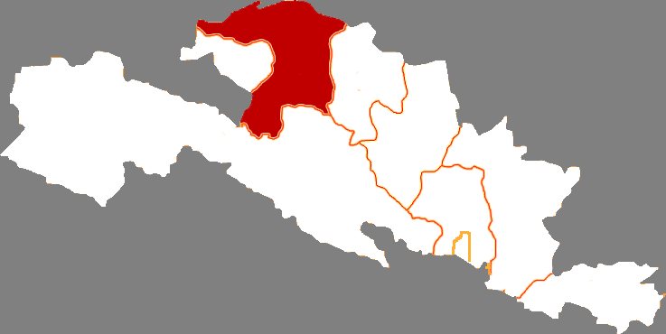 Location of Gaotai County in Zhangye city, China